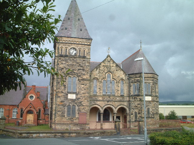 Rhosllanerchrugog. Just off the A483 south of Wrexham in the village of Rhosllanerchrugog, this building, built around 1889, housed an orphanage between WW1 and WW2 - my father-in-law spent some of his boyhood there before joining the army at the age of 17 in 1927. Still has a forbidding look about it.